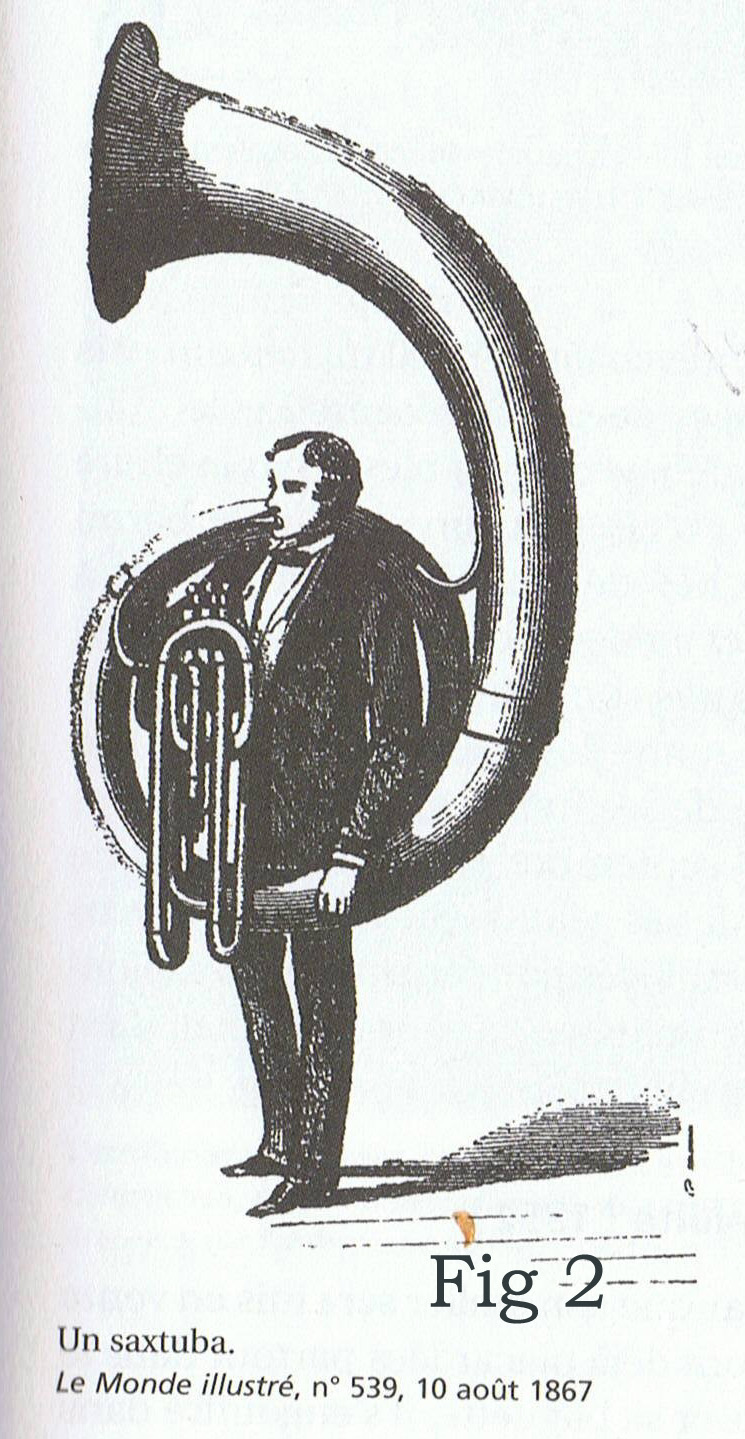 Image of a saxtubist from Le Monde illustré of 1867